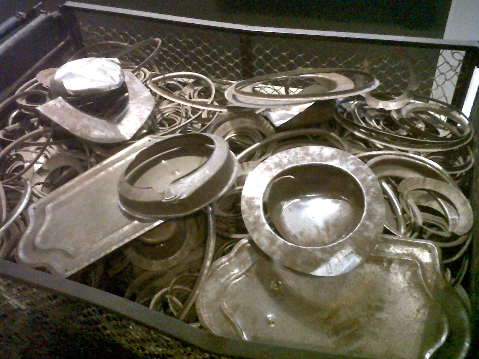 Cooking utensils produced by Oskar Schindler.